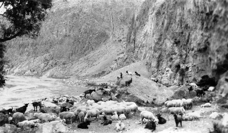 The photo was taken in 1924, and the copyright has expired according to the law of the People's Republic of China, and is in the public domain.